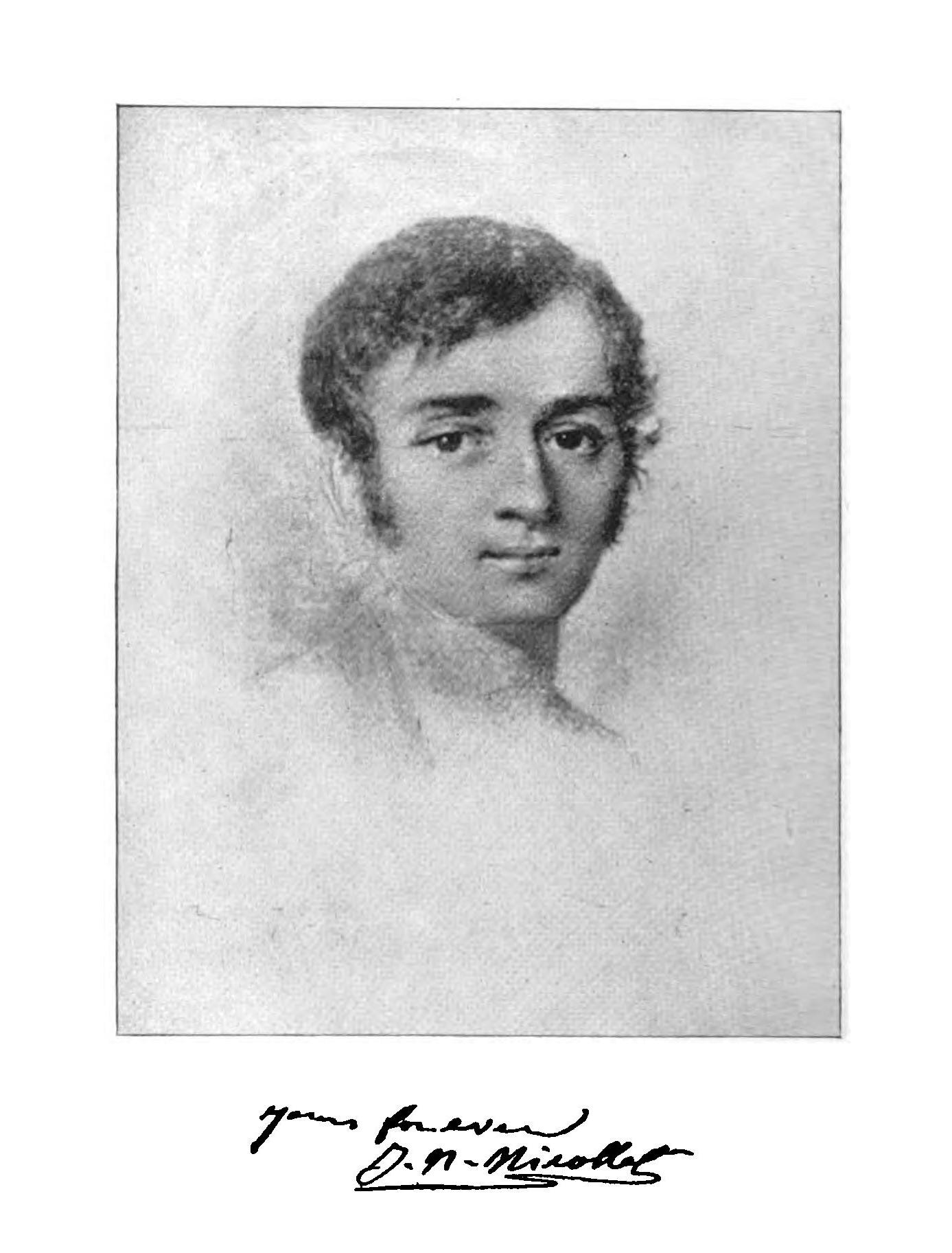 Portrait of J.N. Nicollet (1786-1843) French explorer